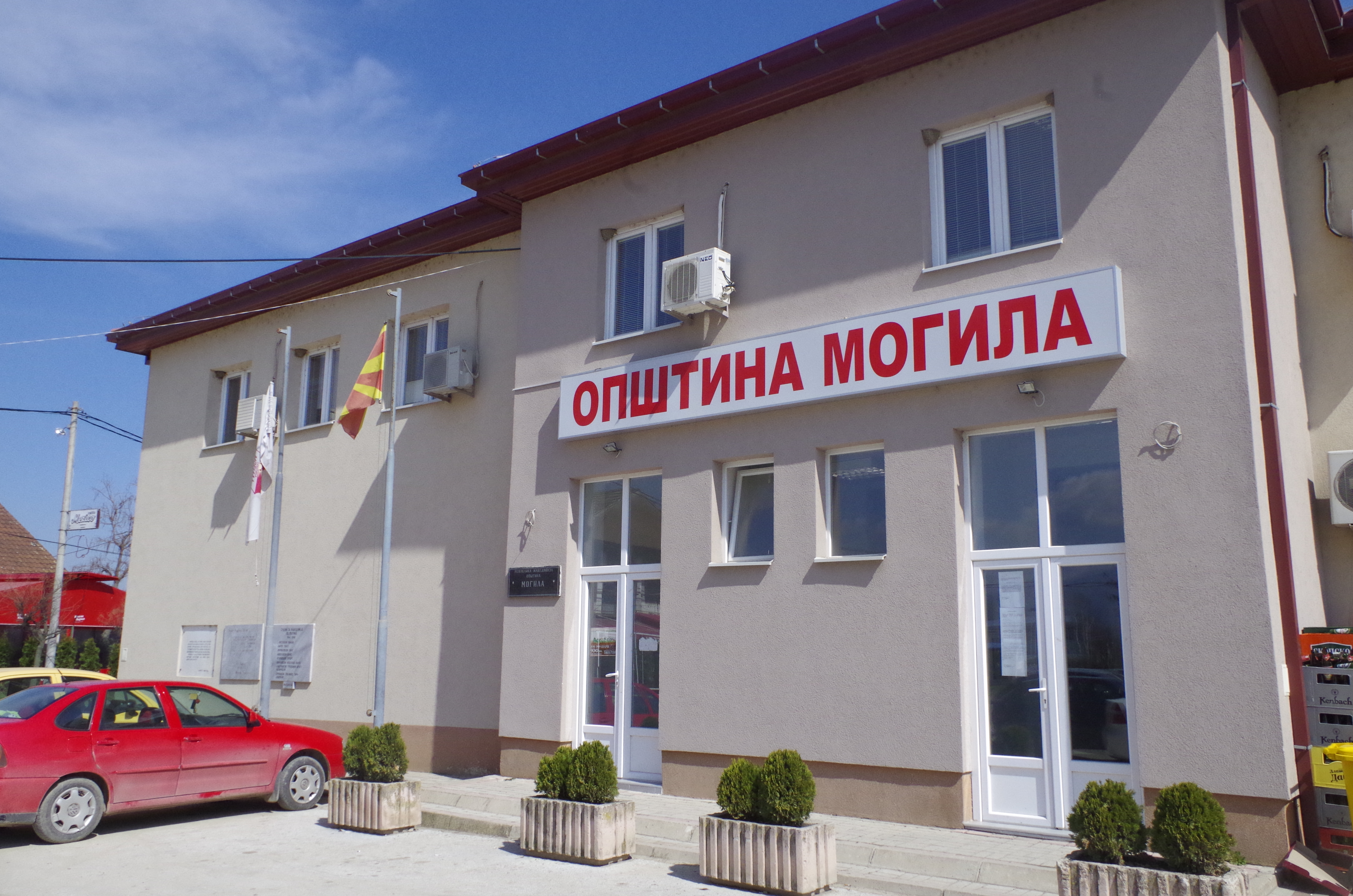 Municipal building in the village of Mogila, Macedonia